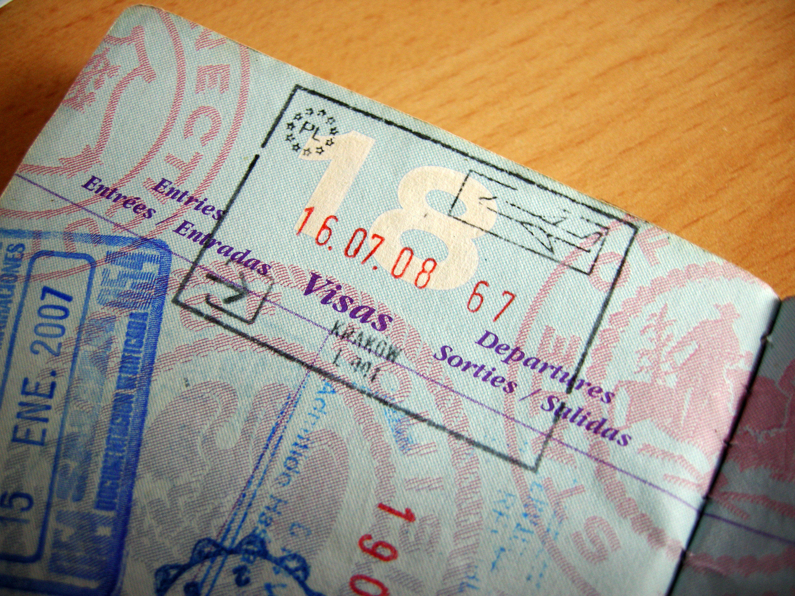 Polish passport stamp from Krakow